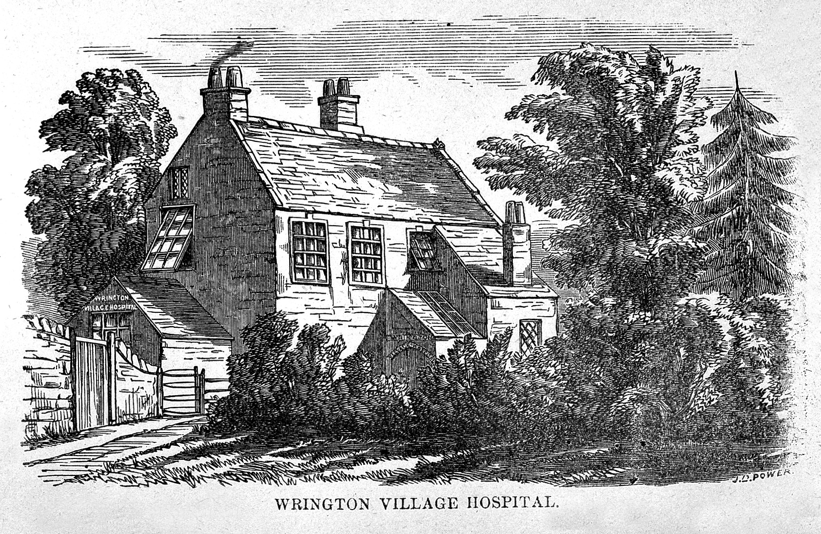 Wrington Village Hospital. General Collections Keywords: Institutions